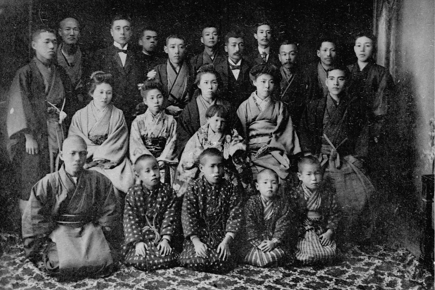 Fukuzawa Momosuke and his relatives.